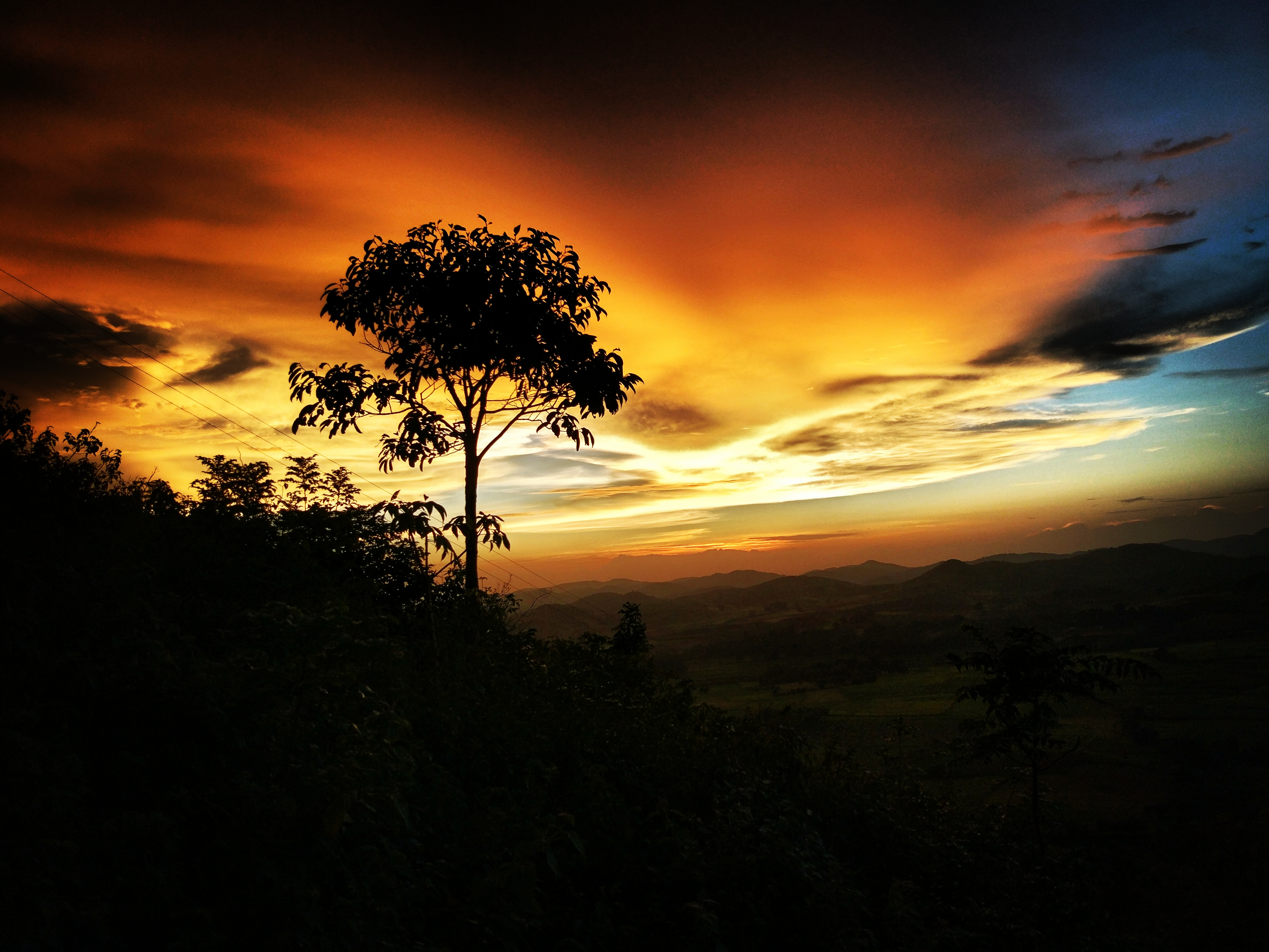 View from table mountain, Koraput